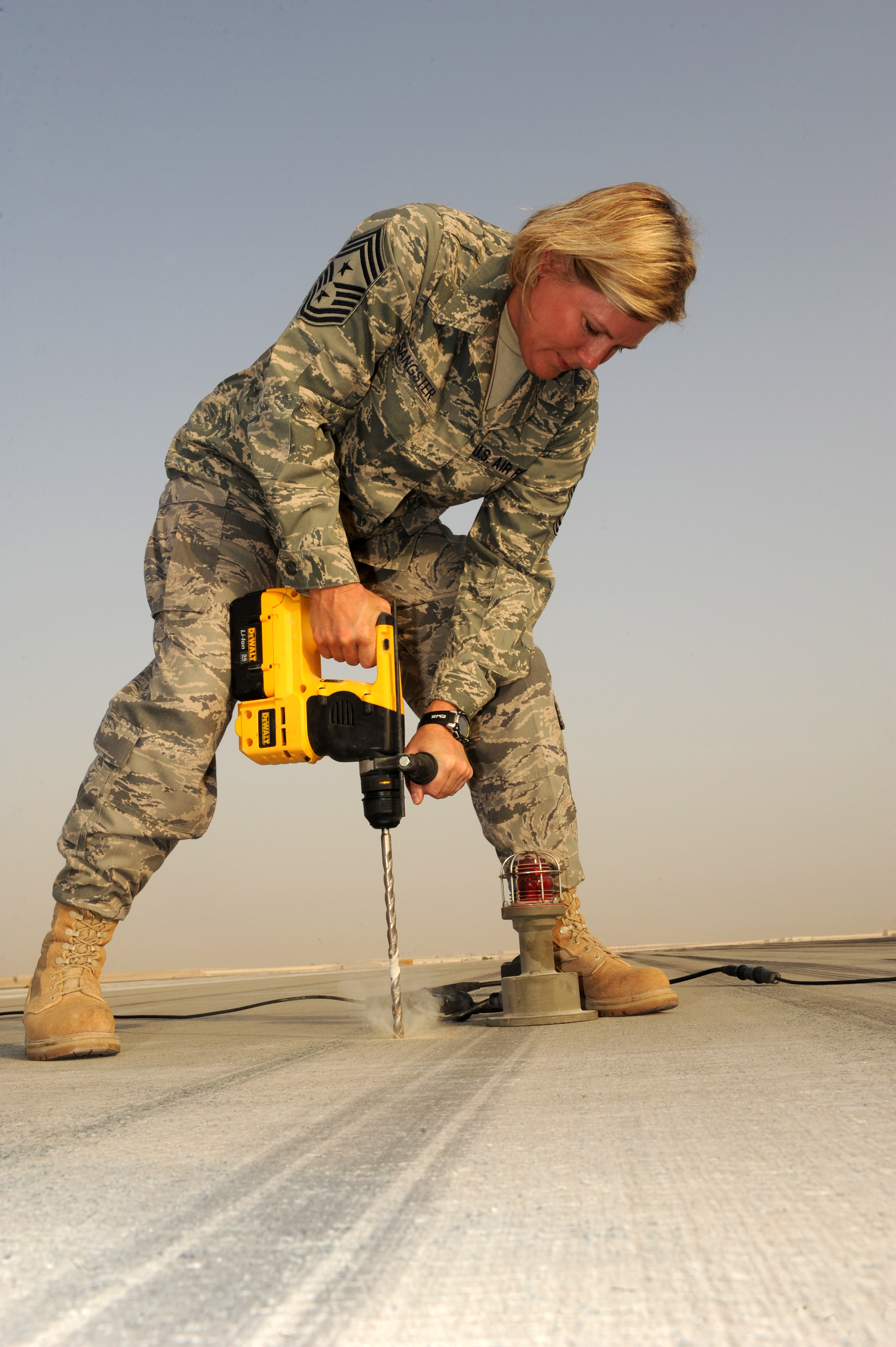 U.S. Air Force Chief Master Sgt. Suzan Sangster, a command chief with the 380th Air Expeditionary Wing, helps airmen of the 380th Expeditionary Civil Engineer Squadron drill holes in concrete to install runway lights in Southwest Asia on Aug. 15, 2009.